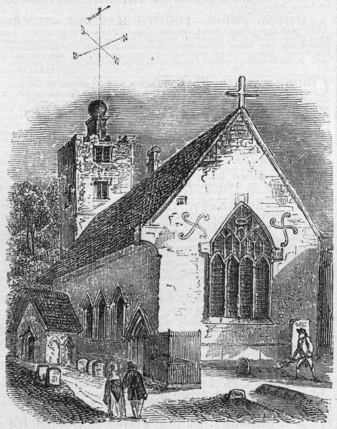 St Lawrence Church, Morden, Surrey